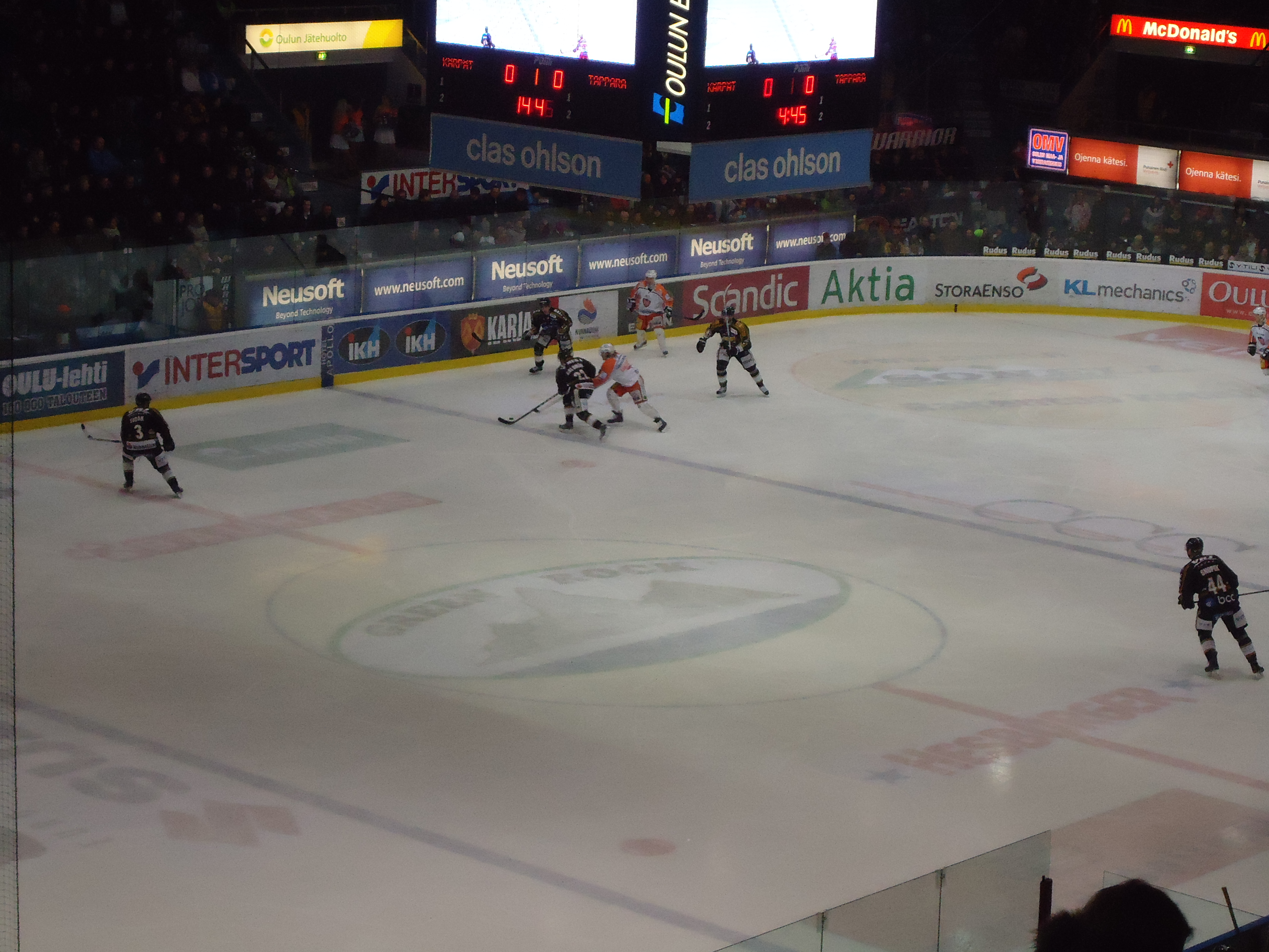 Ice hockey game between Kärpät and Tappara in the Oulun Energia Areena in Oulu, Finland